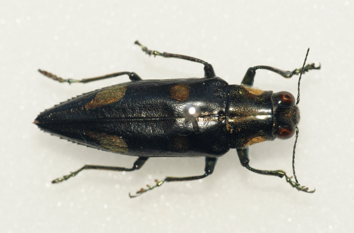 Buprestidae - In collection Rare